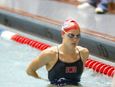 Photograph of British swimmer Georgina Lee, competing for SMU.